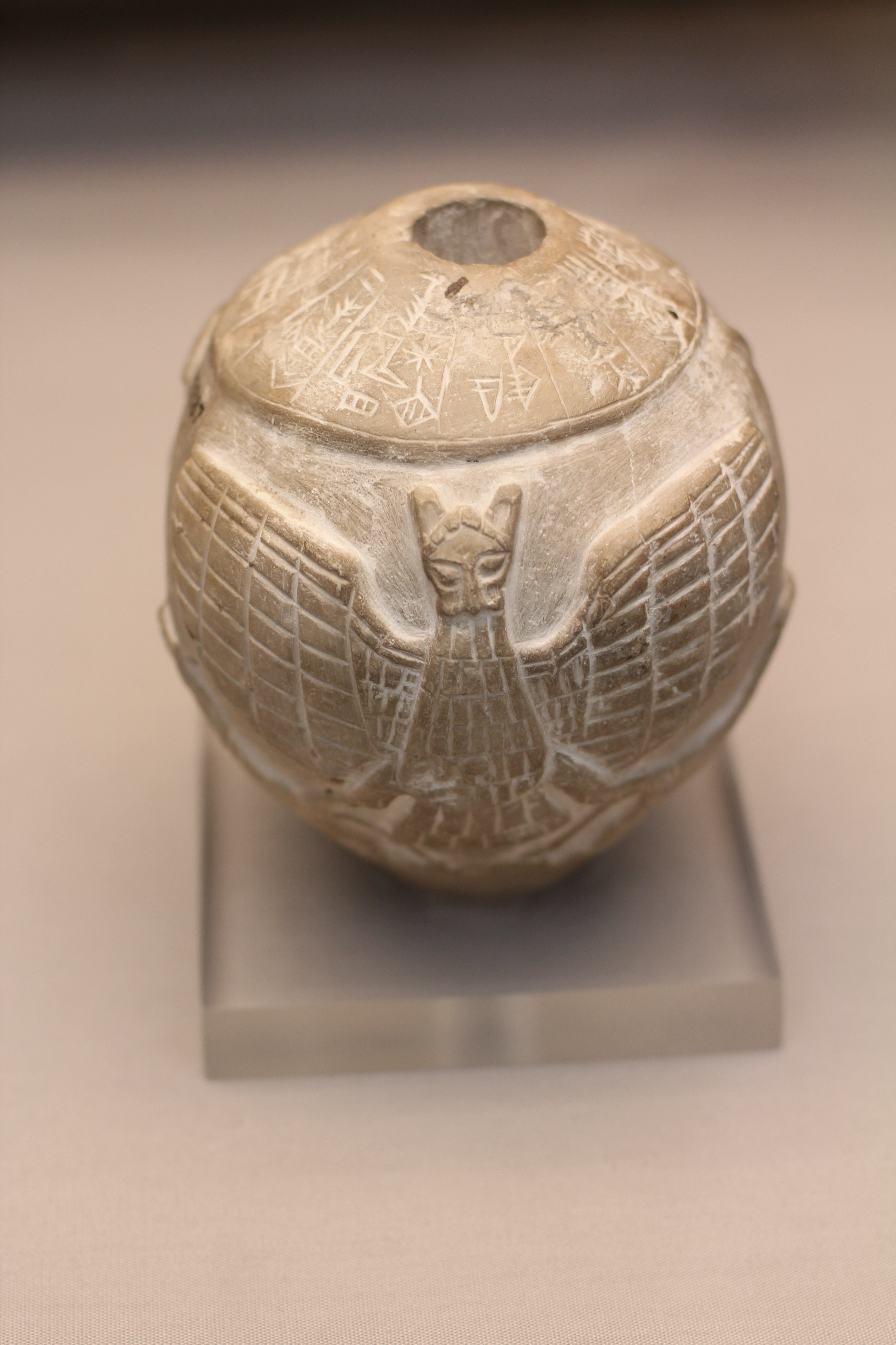 This shows Imdugud, the lion-headed eagle, grasping two lions. Imdugud, the symbol of the god Ningirsu, can also be seen on the relief above the west doorway of this gallery. The largest of the three human figures is probably King Enannatum of Lagash. About 2400 BC (Early Dynastic III) From Girsu Museum Reference: ME 23287 British Museum Native nameBritish MuseumLocationLondonCoordinates51° 31′ 10″ N, 0° 07′ 37″ W Established1753Website control VIAF: 155502113 LCCN: n79107735 GND: 4074329-9 BnF: cb11871460b ULAN: 500125180 WorldCat